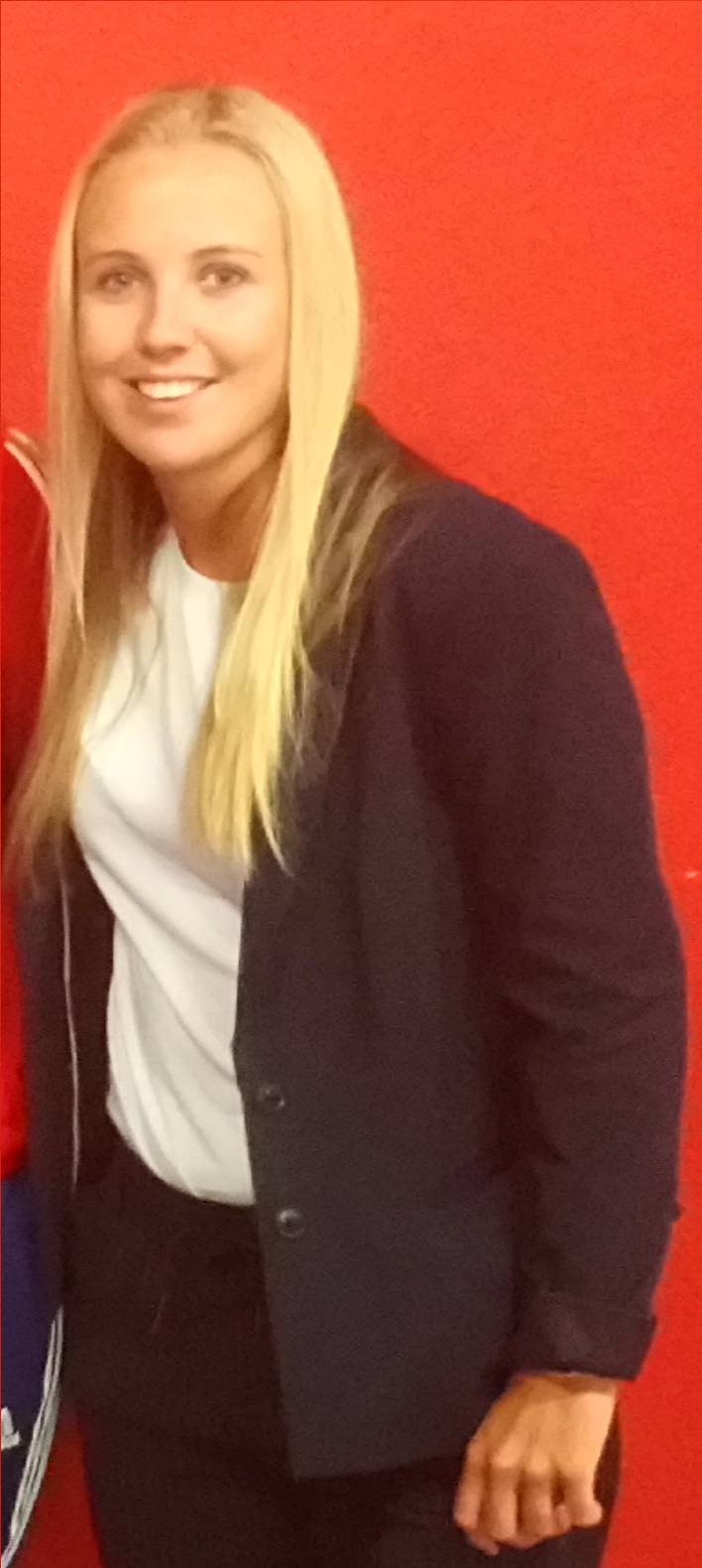 Beth Mead at the Emirates Cup 2019